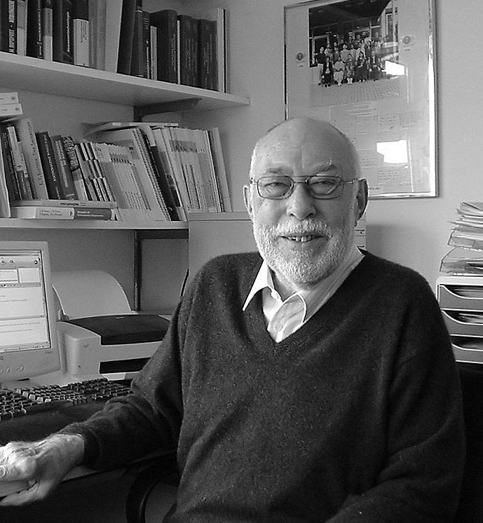 Professor Dr. rer. nat. Wolf-Dieter_Deckwer